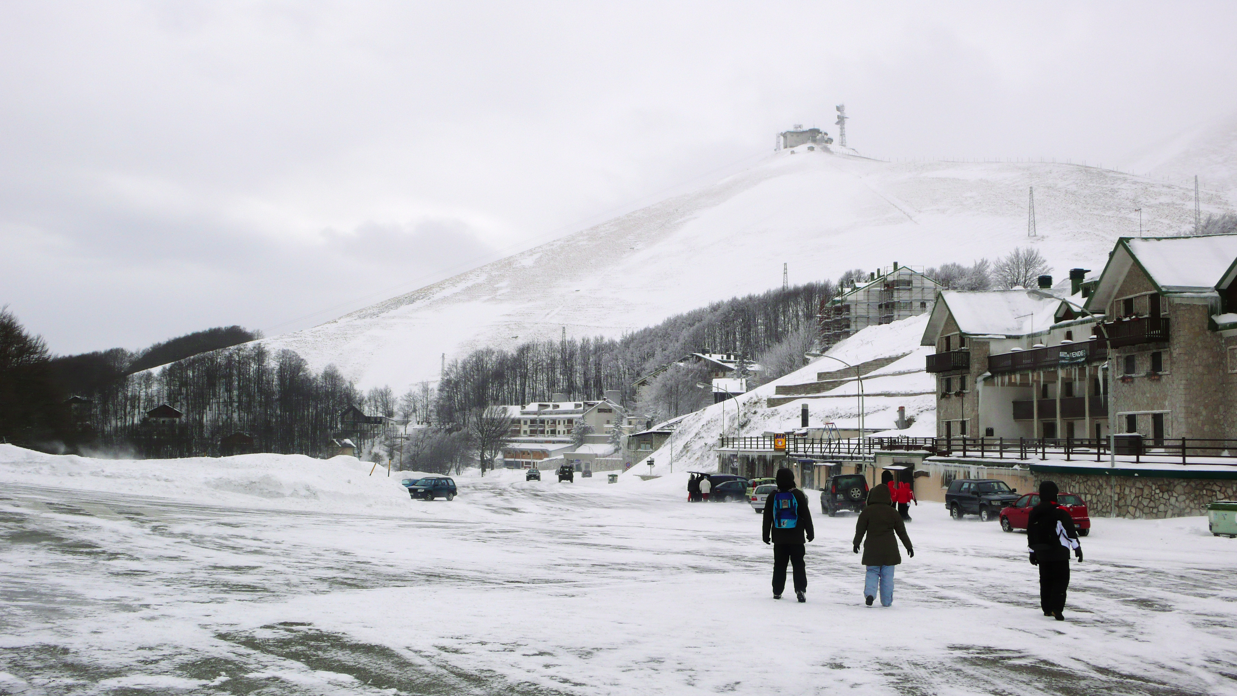 Terminillo Mountain (Province of Rieti, Lazio, Italy)